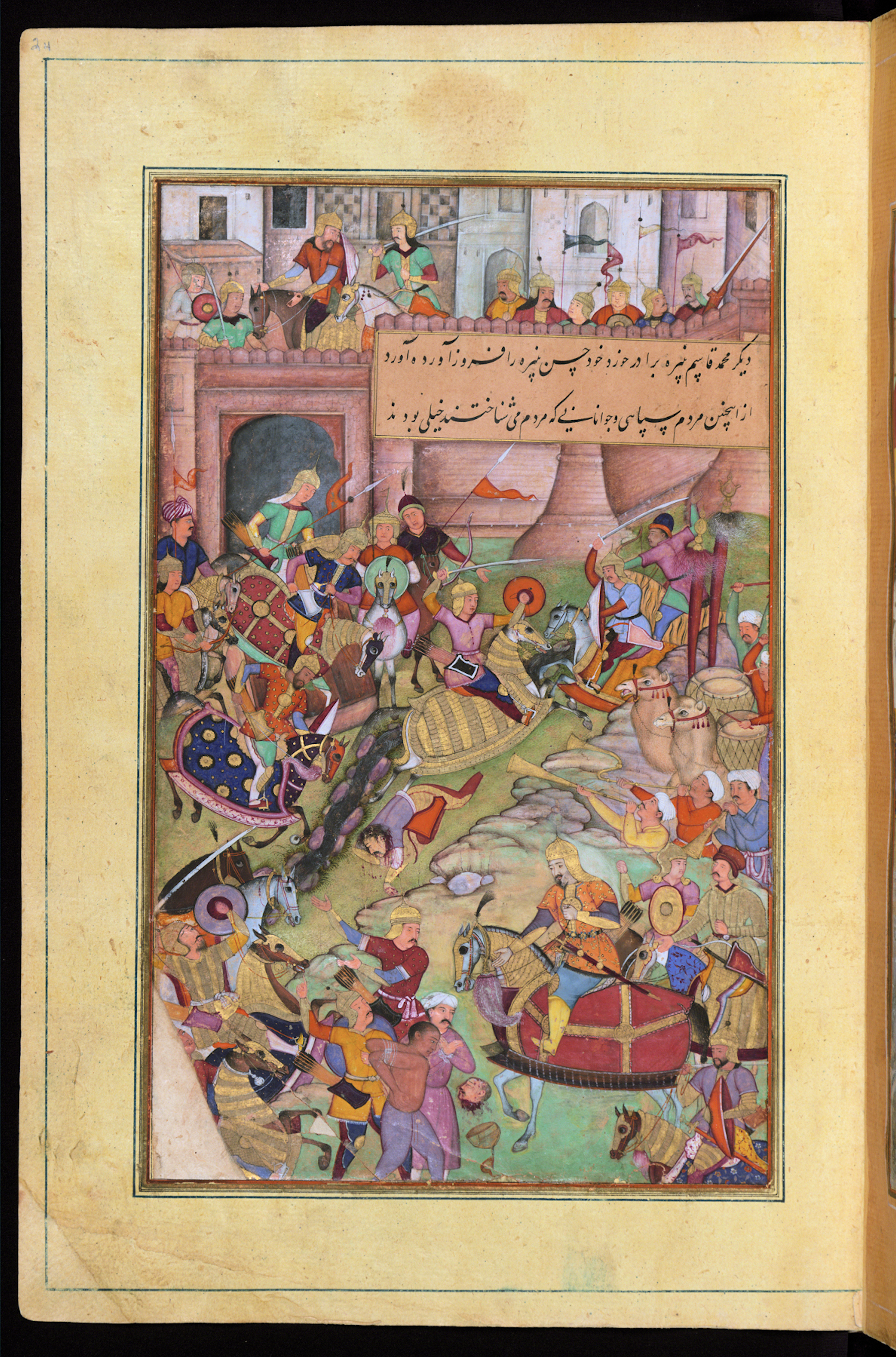 This folio from Walters manuscript W.596 depicts the fall of Samarqand.